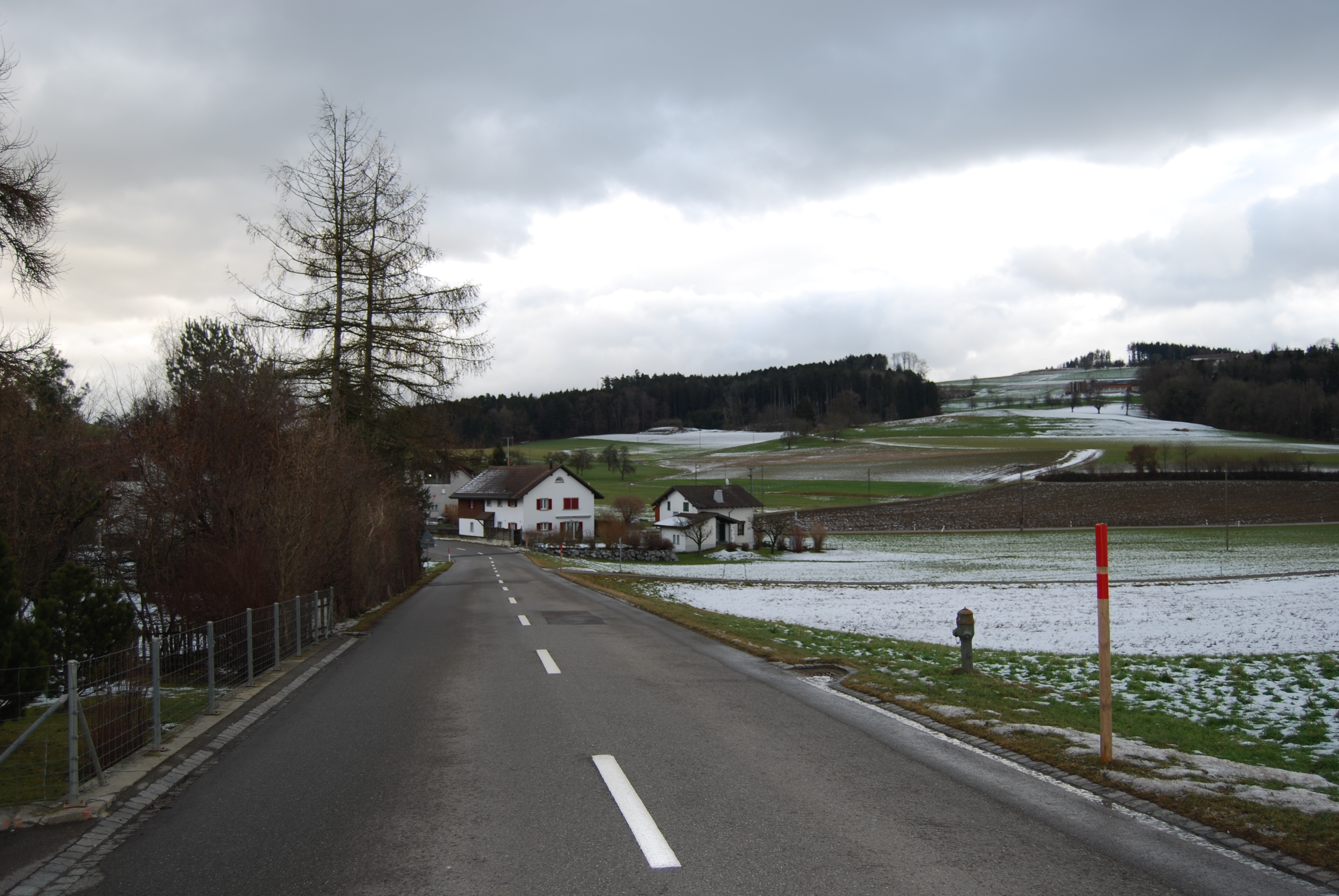 Oberschneit, municipality Hagenbuch, canton of Zürich, SwitzerlandEsperanto: Oberschneit, komunumo Hagenbuch, Kantono Zuriko, Svislando